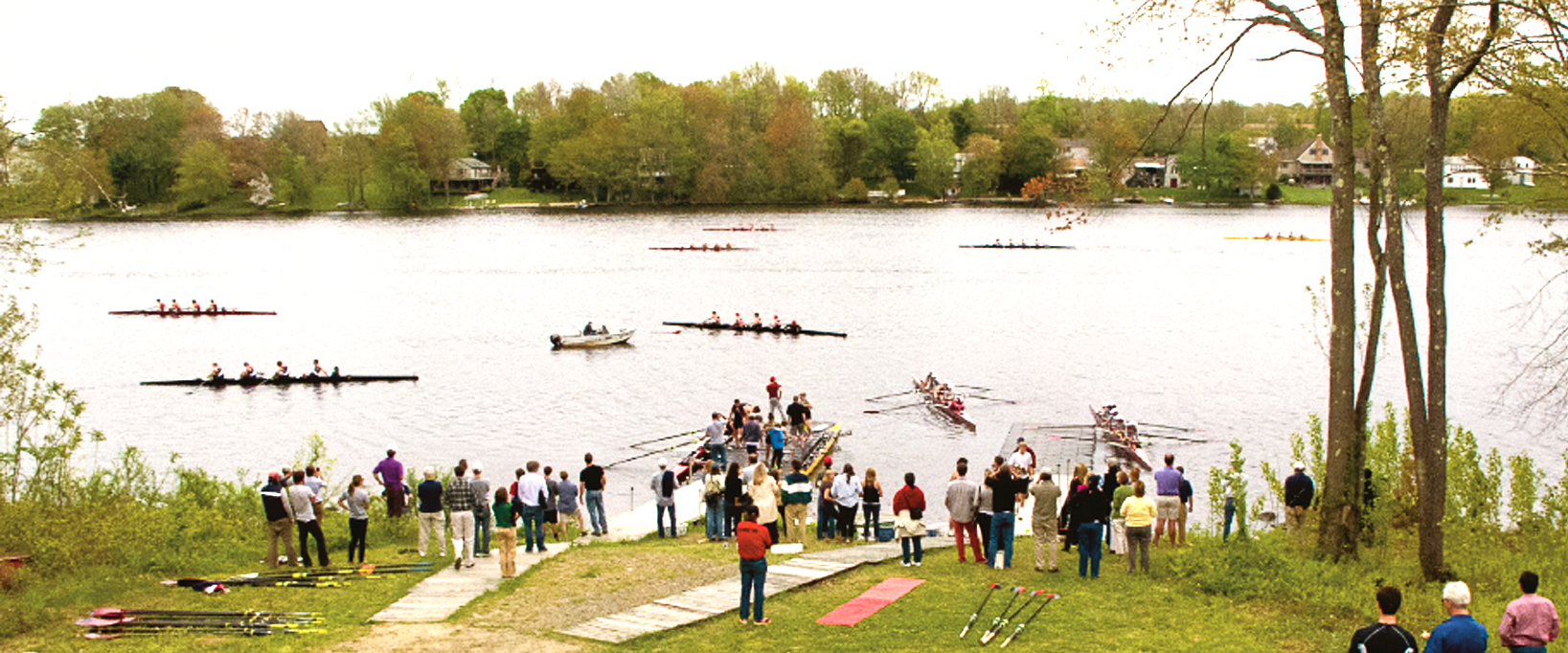 Photo of Pomfret School Crew Regatta 2011